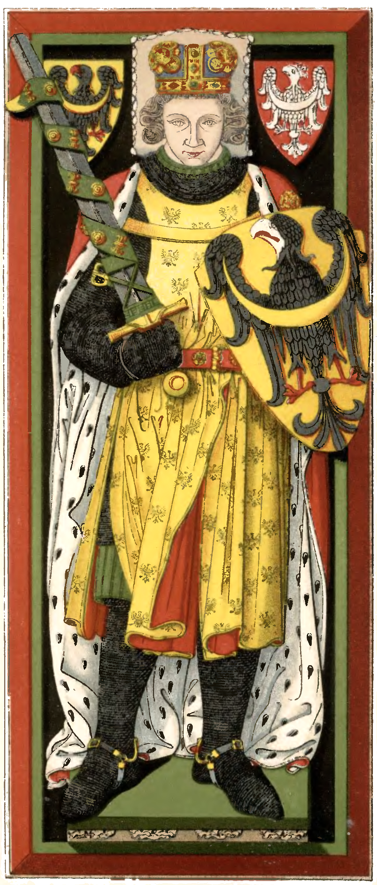 Henryk IV Probus tomb effigy